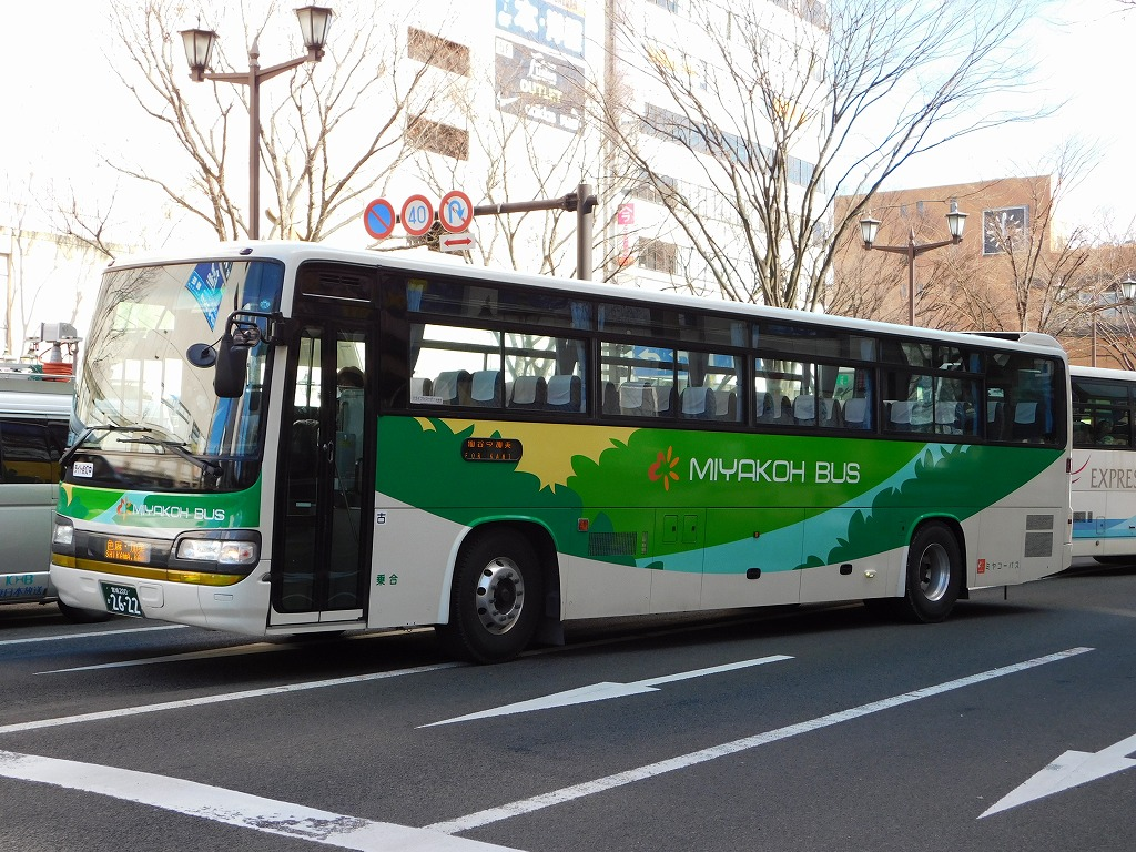 Miyakoh bus (Furukawa) Hino S'elega R(KL-RU4FSEA)express bus "Sendai-Kami"